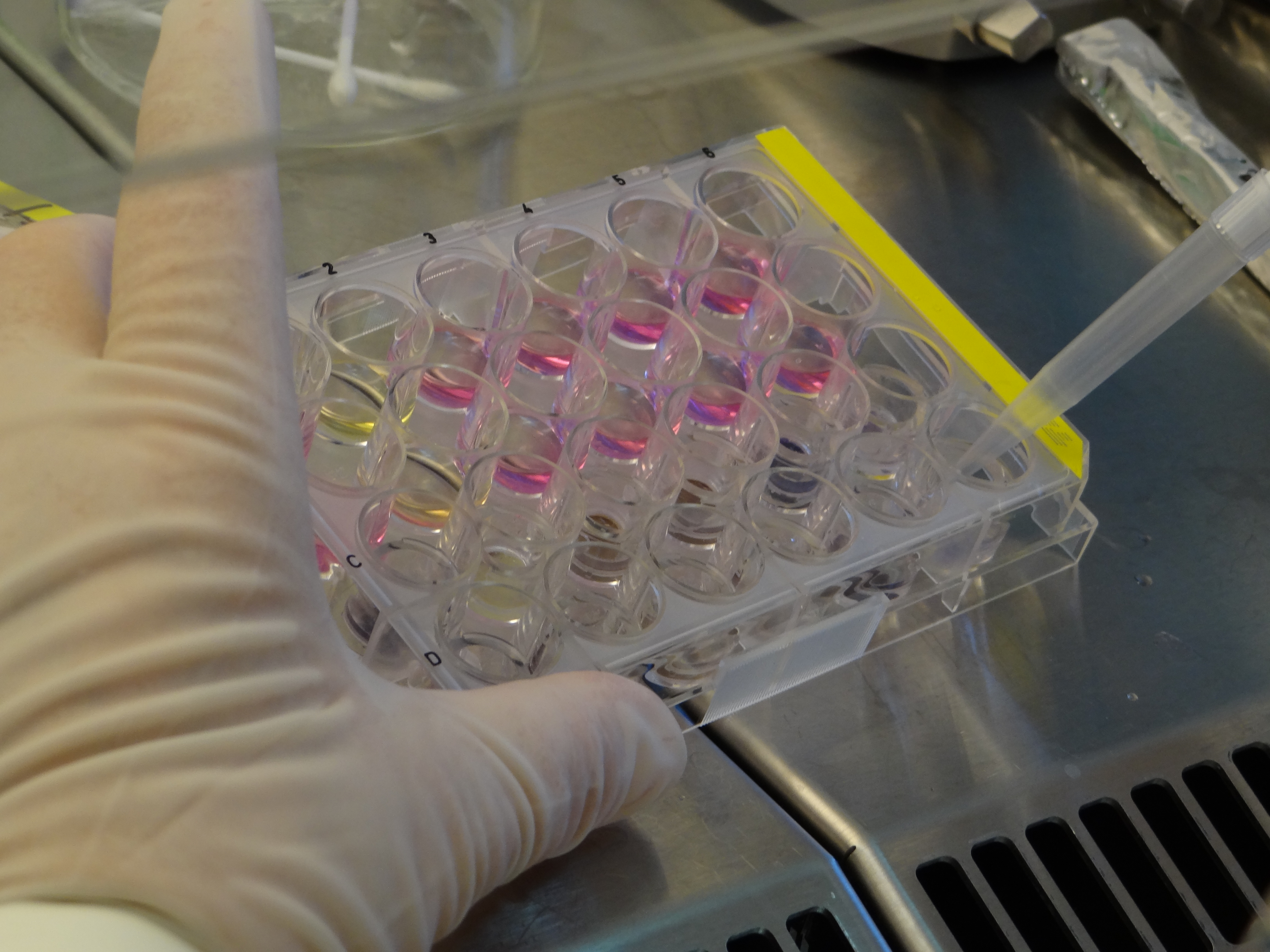 In vitro skin corrosion test on reconstructed human epidermis - MTT viability test